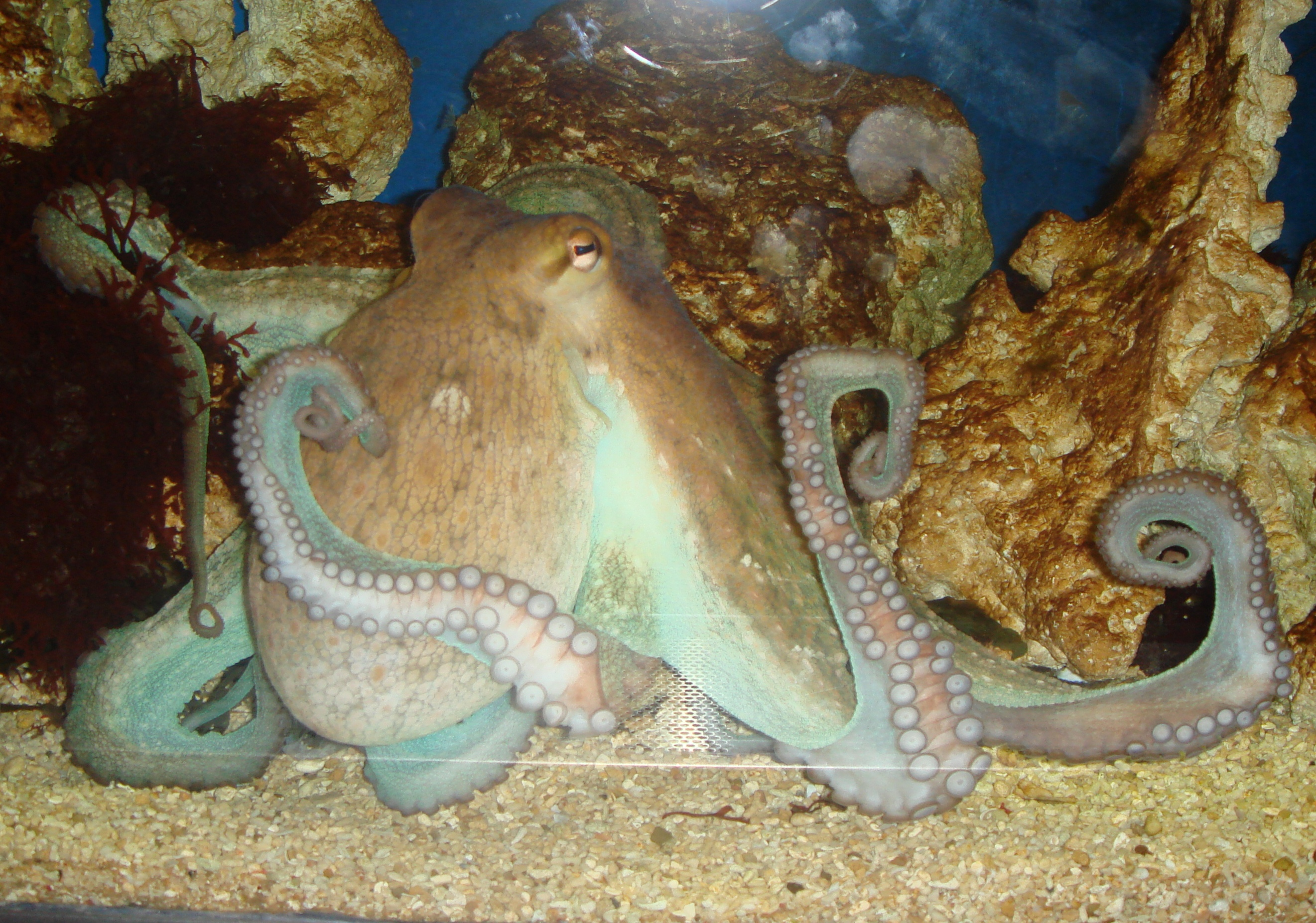 Photo of an octopus taken by ElinorD at Frankfurt Zoo on 9 April 2007